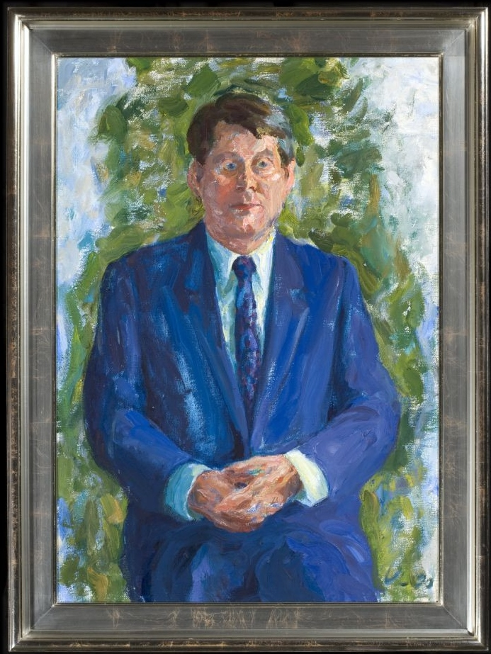 Portrait painting of the Finnish professor Jussi Hyyppä (1930–2018).